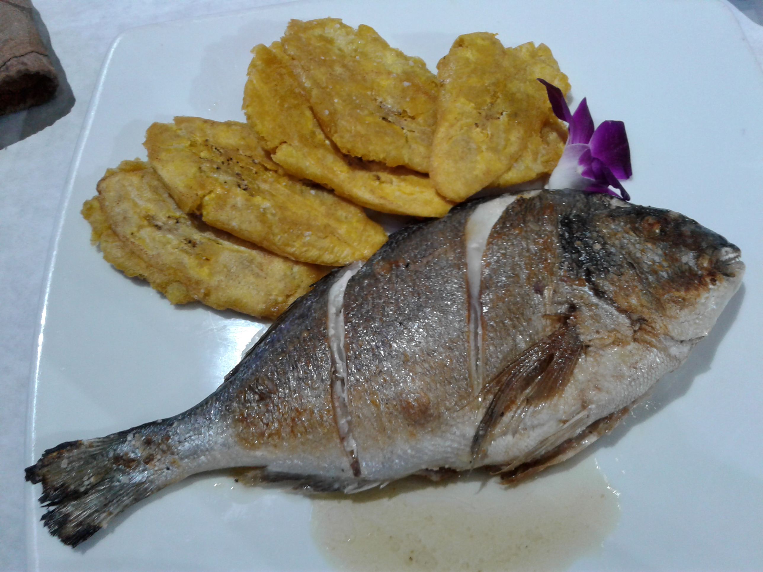 Snapper at Marisqueria Jibara Restaurant, San Sebastian, Puerto Rico